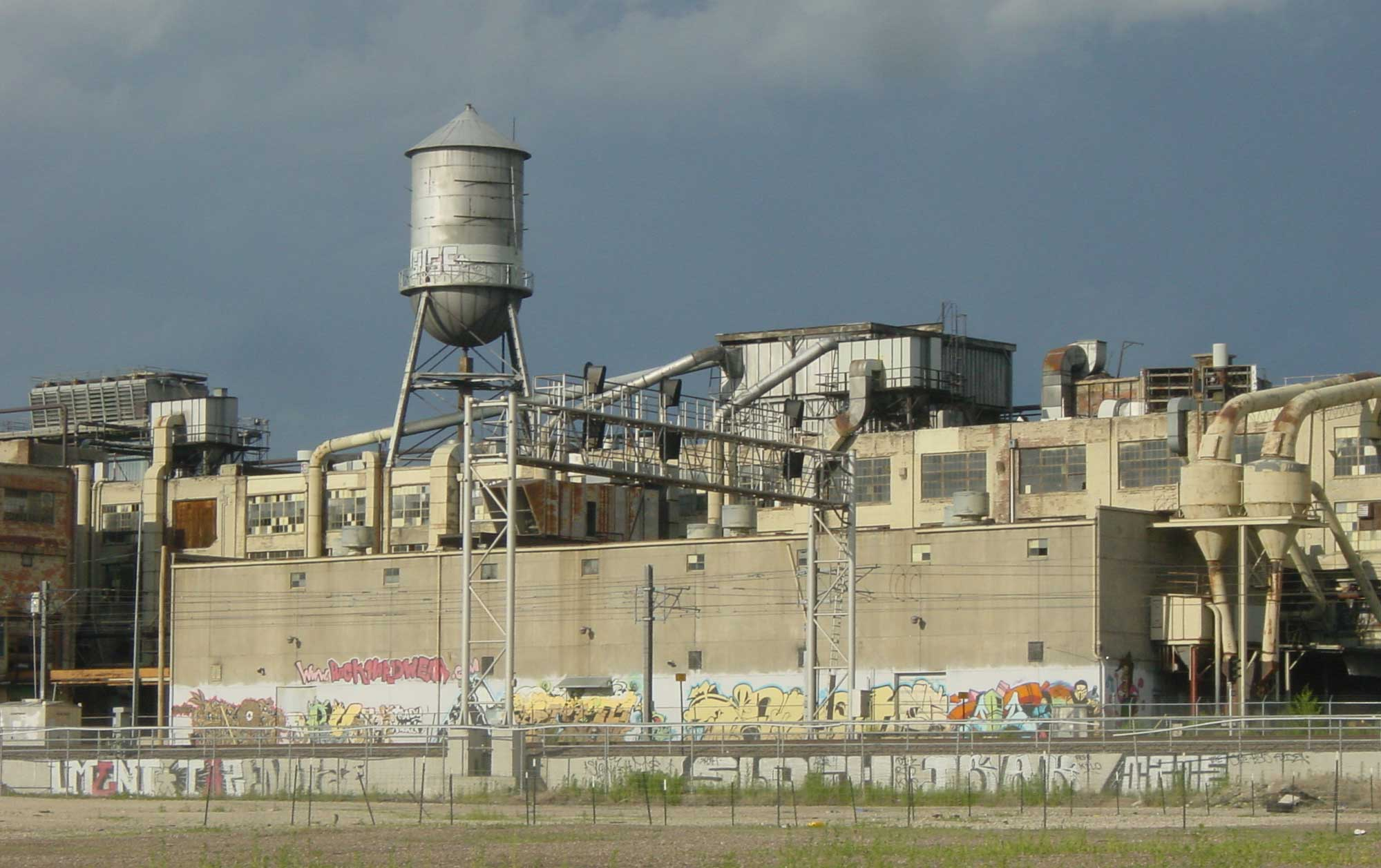 Former Gates Rubber factory, Denver, Colorado USA